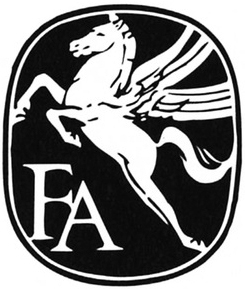 Logo of company originally designed before 1923